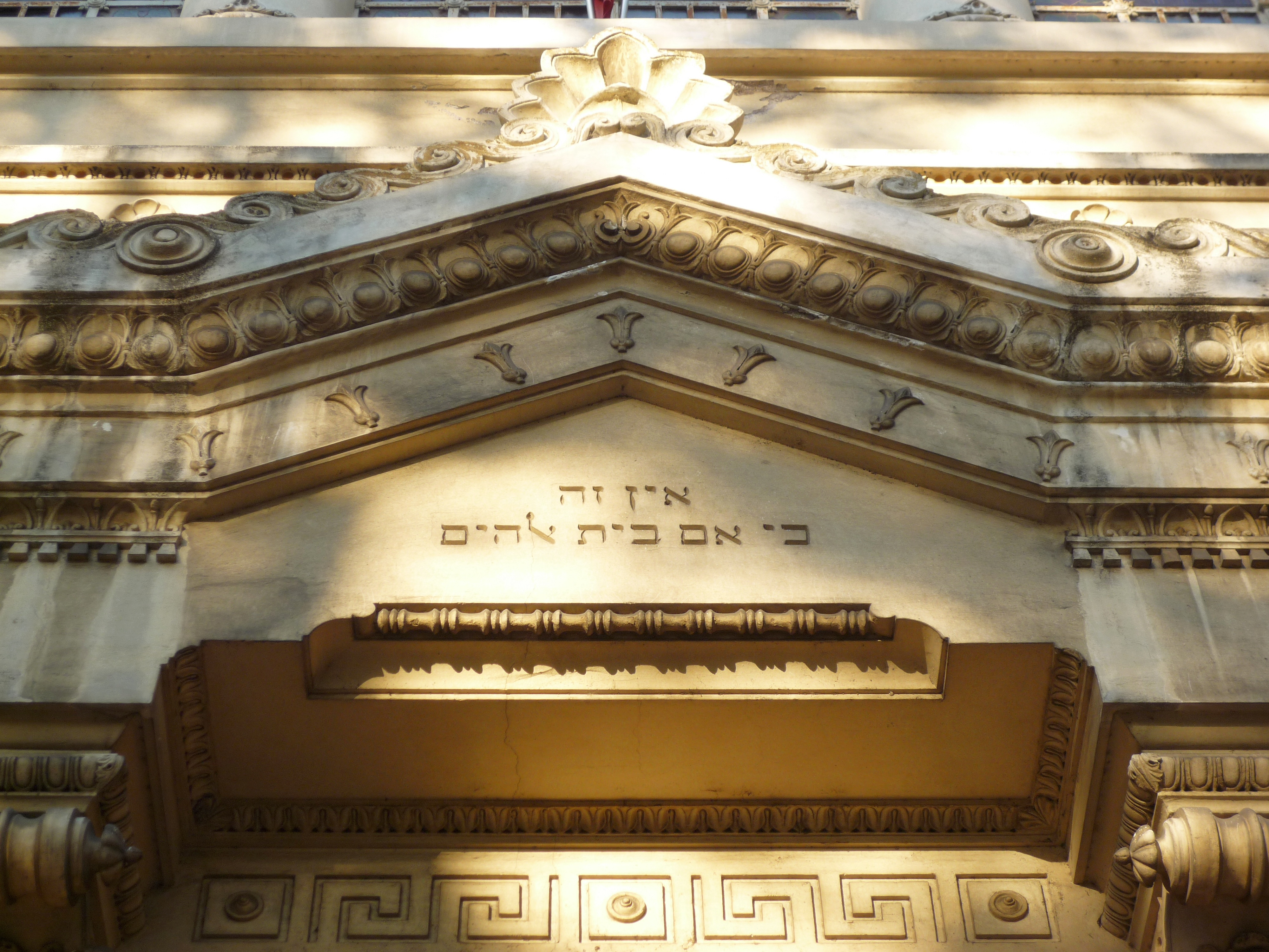 The Great Synagogue of Rome, called in